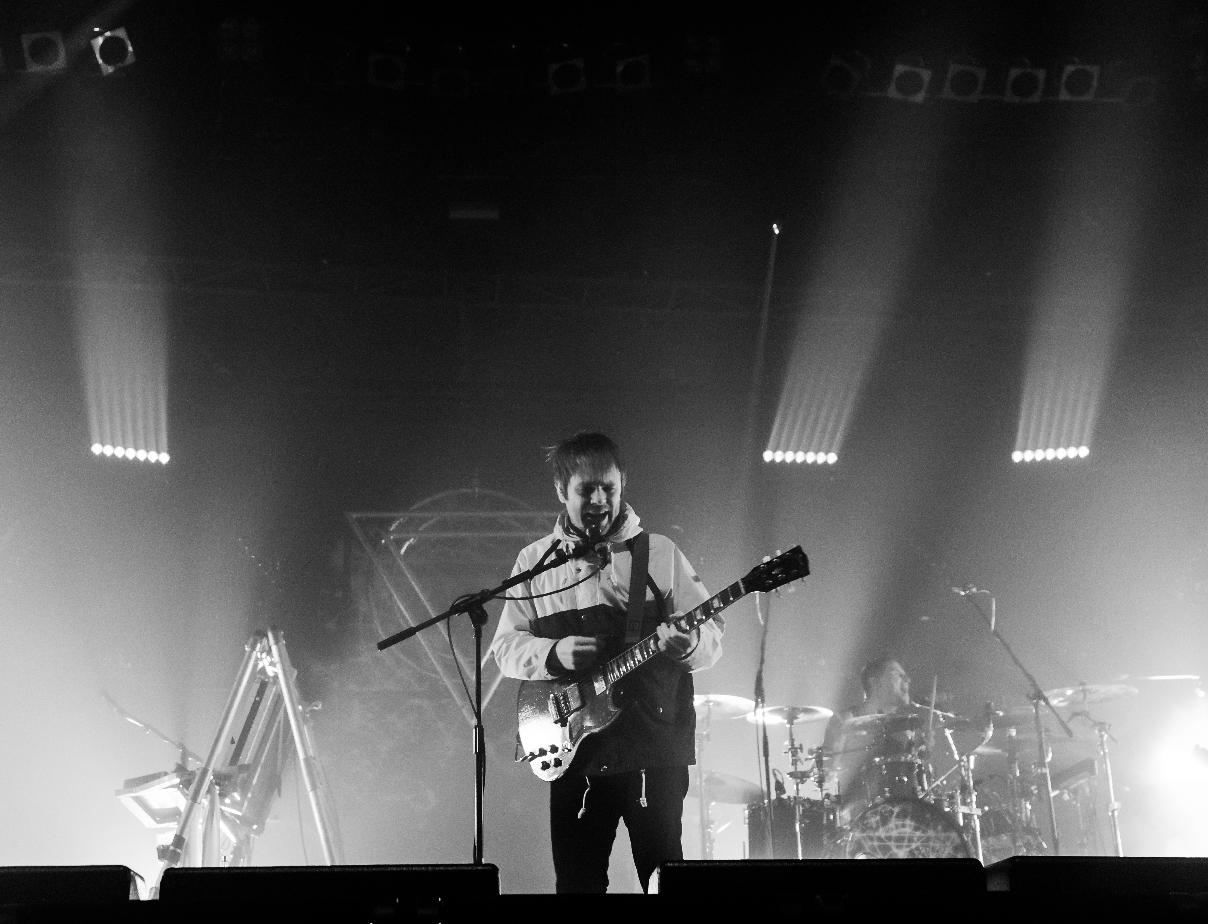 Enter Shikari - Rock am Ring 2015